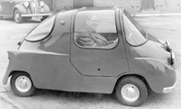 Publicity photograph taken in 1957 for Henry Meadows Ltd of the prototype vehicle nicknamed "The Bug" used for the development of the Meadows Frisky.